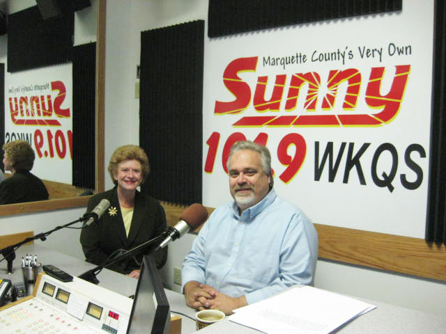 Senator Stabenow stopped by Sunny 101.9 FM in Marquette during her recent visit to the U.P. This photograph is provided by the Office of U.S. Senator Debbie Stabenow.